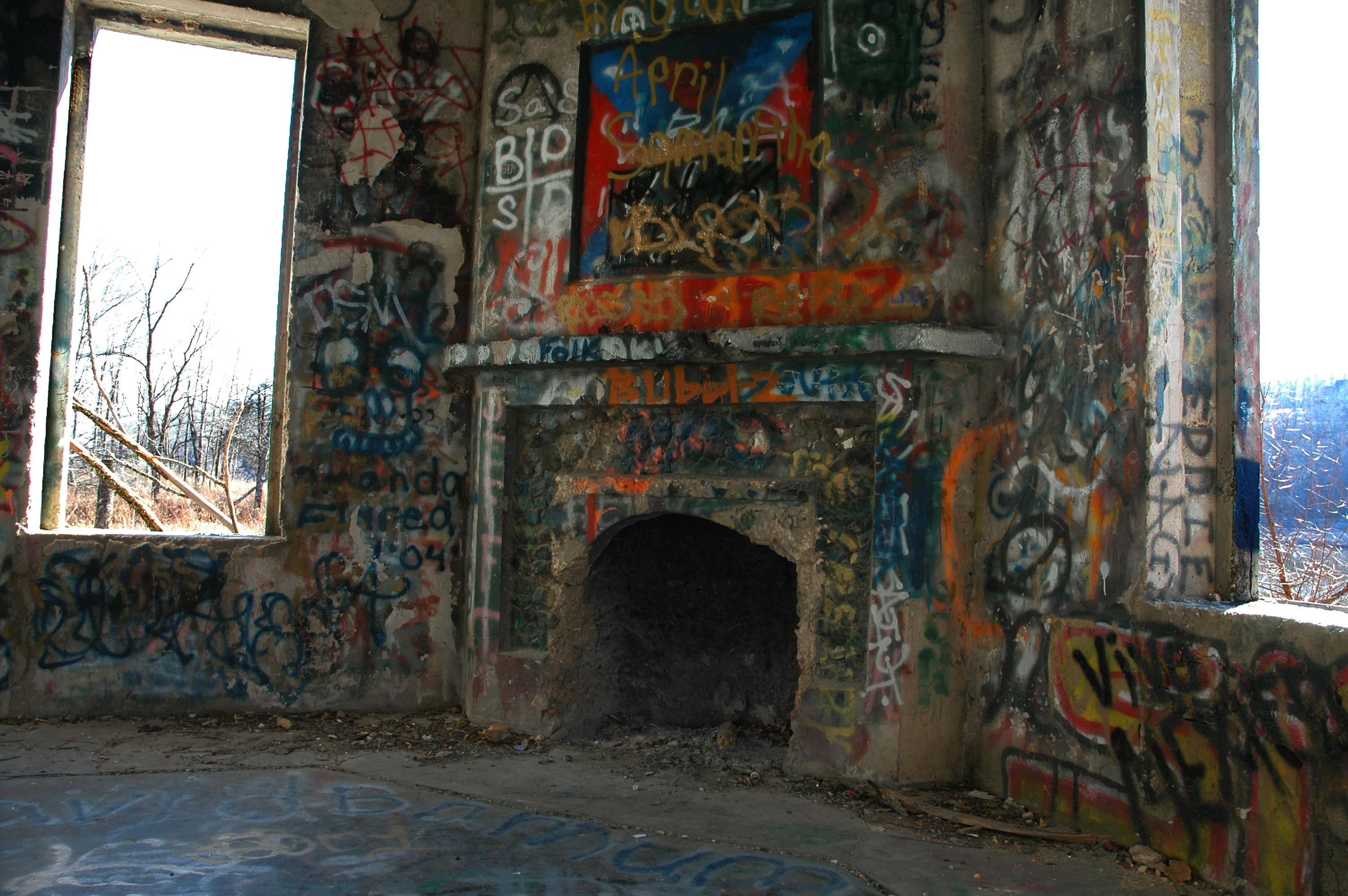 Each room in Oklahoma Row had its own fireplace. When the White River was dammed, forming Beaver Lake, the abandoned, once-popular riverside resort town of Monte Ne was flooded and mostly buried. With this year's drought conditions leaving Beaver Lake at its lowest point since its creation, Monte Ne has largely resurfaced. While I was back home, Suzanne's family invited me along to explore the ruins. More info on Monte Ne can be found here . Lots of images from present-day and historic Monte Ne are here . An achival story on the resort and archival photos can be found here .